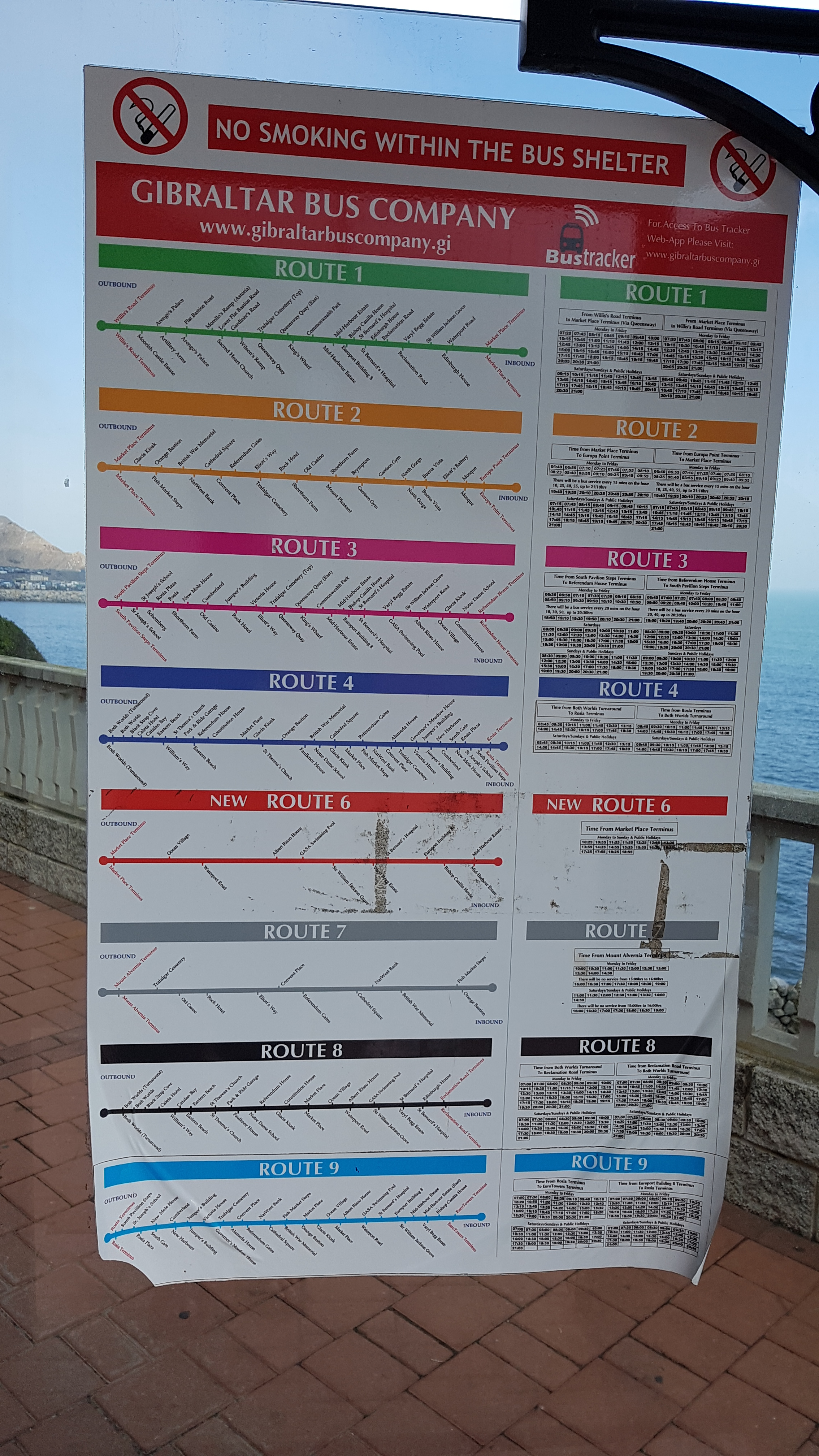 Details of the 9 bus routes